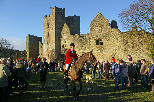 Ludlow Hunt, Ludlow Castle. A member of Ludlow Hunt sets off from the Outer Bailey of Ludlow Castle during the Hunt's traditional Boxing Day meet, with the Castle's Great Tower and Judges' Lodgings behind.